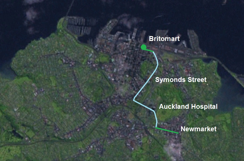 The route of the Central Connector in Auckland, New Zealand. The green section show part of the Britomart-Newmarket route which saw no or limited physical road upgrades as part of the works (in the case of the Newmarket section, because it already had bus lanes).